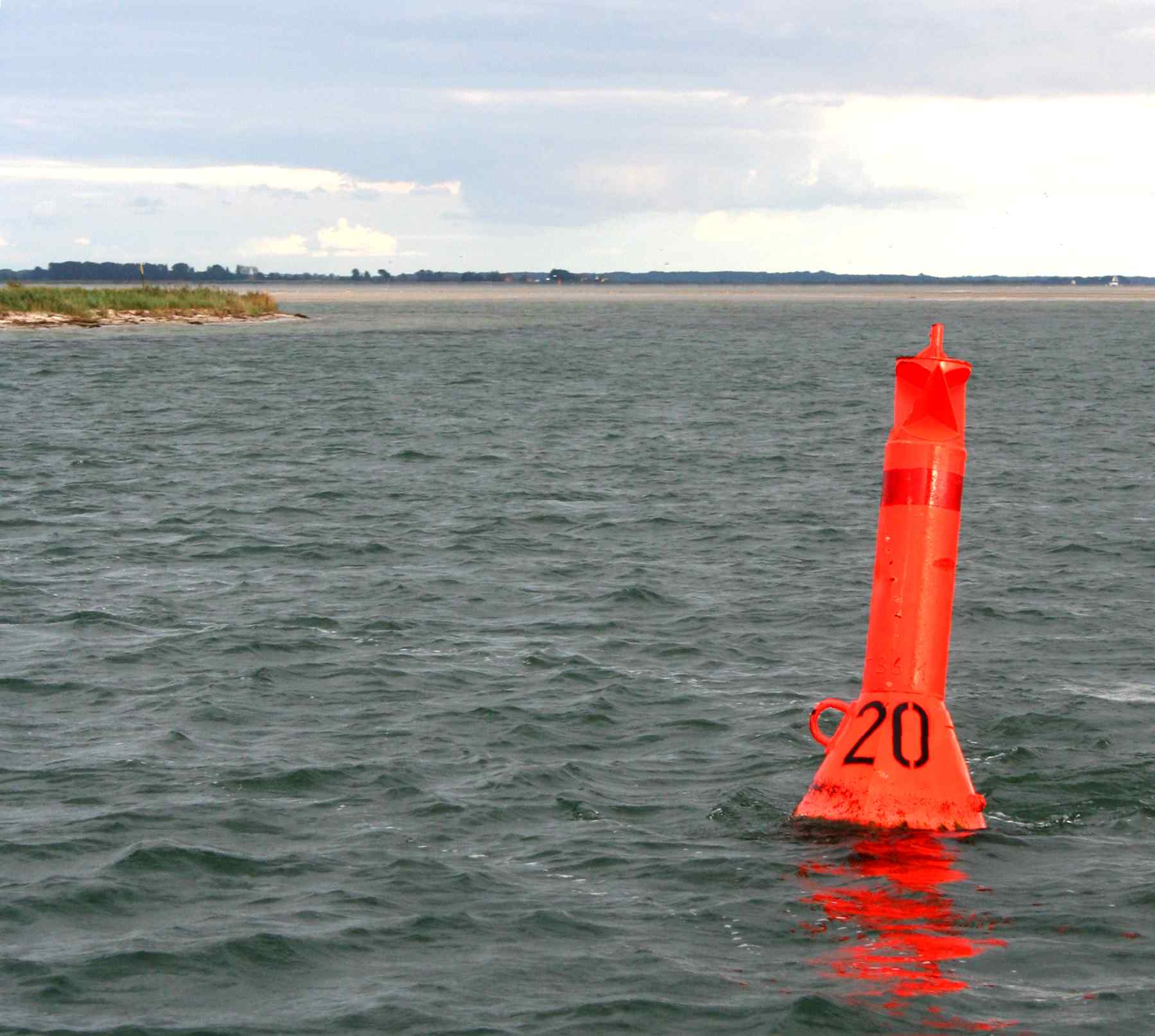 Southernmost part of Gellen peninsula and Gellenstrom buoy #20